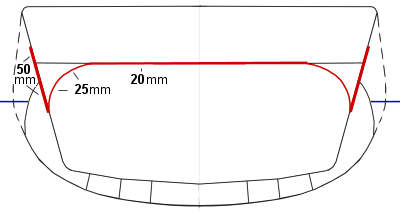 Simplified cross-section of a hull of the German WW2 light cruiser Leipzig, showing armour in red (based upon S.B. Trubicyn: "Legkiye kreysera tipa Nurnberg (1928-1945 gg.)" (Легкие крейсера типа 'Нюрнберг' (1928-1945 гг.)), series Boyevye Korabli Mira, 2006